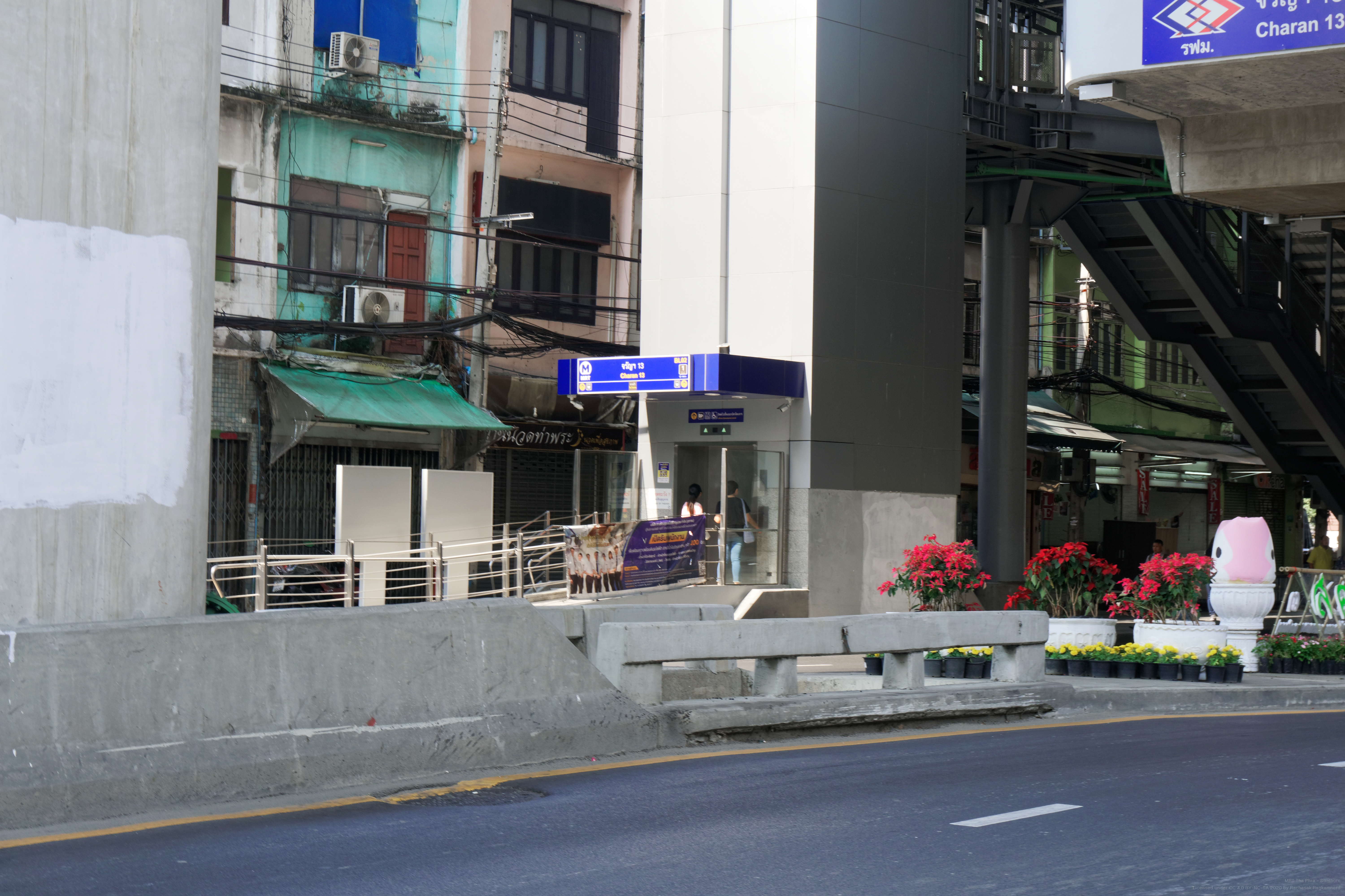 MRT Charan 13 – Exit 1 - Lift